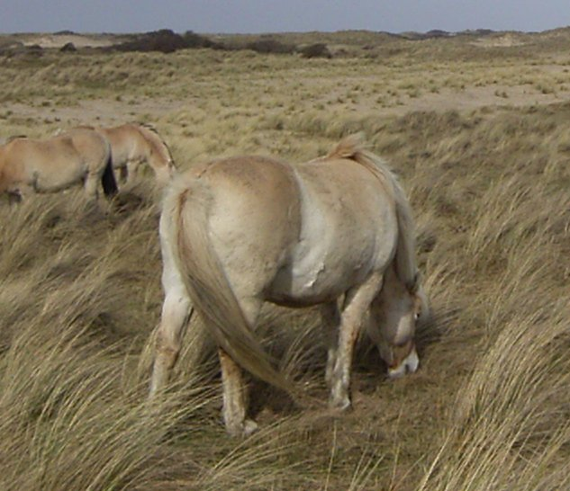 Red dun. This photo shows a horse in nature area solleveld